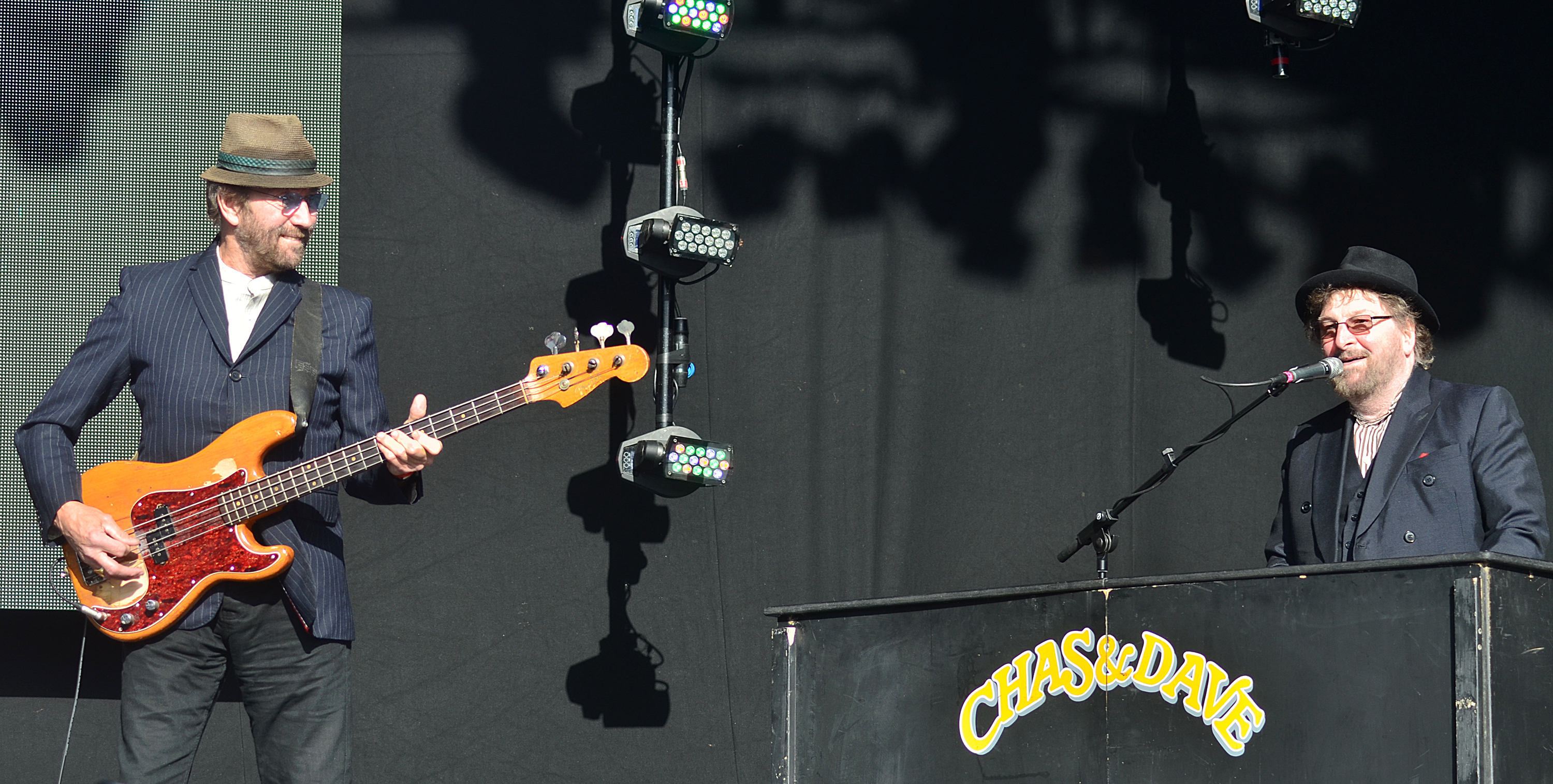 This is successful Cockney group Chas and Dave (or Chas 'n' Dave) famous for mixing pub singalong, music hall, boogie woogie piano and 1950s Rock 'n' Roll. Here they are performing at Let's Rock Bristol, 6 June 2015.